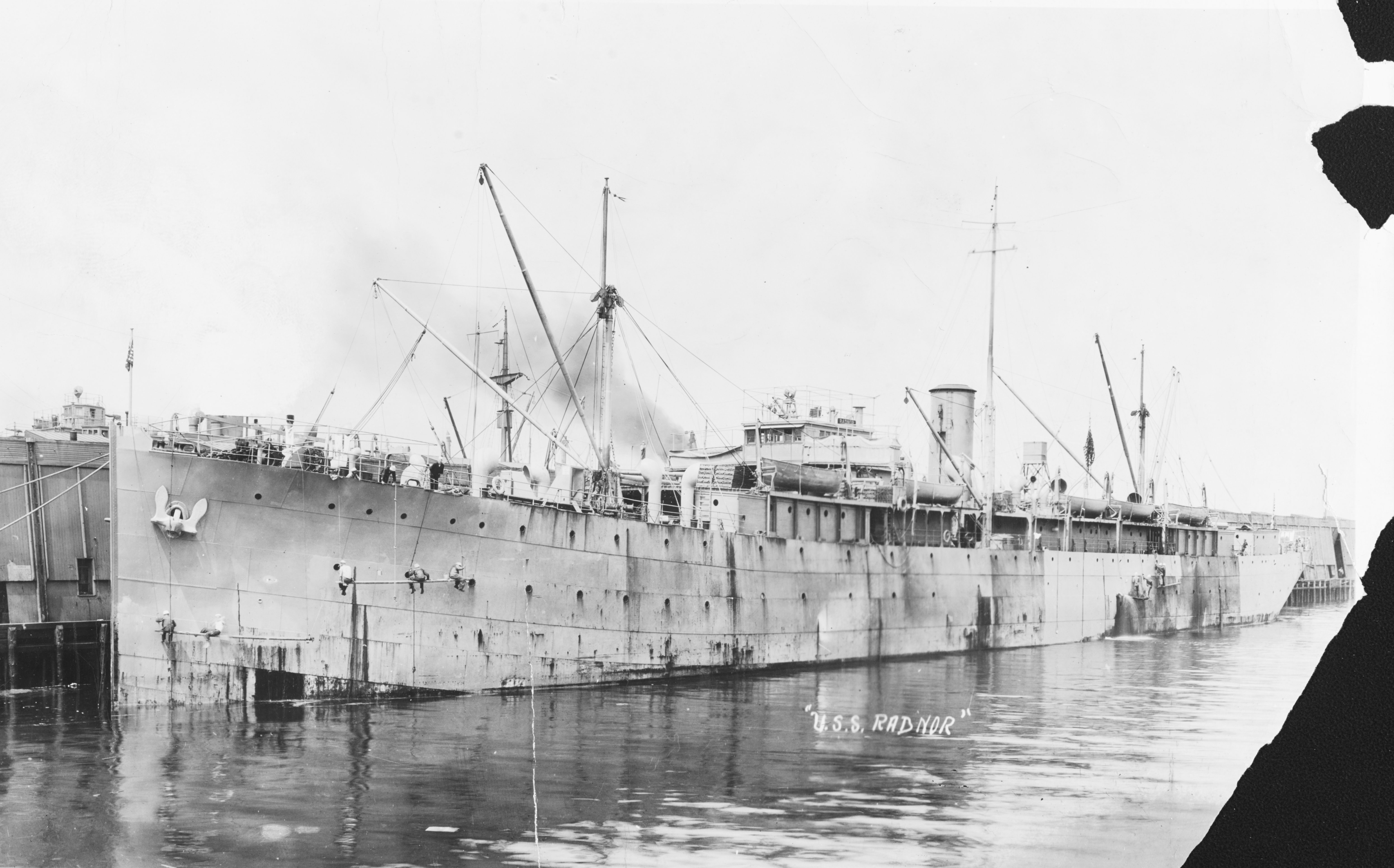 USS Radnor (ID-3023) in the process of being painted while in port, 1919.